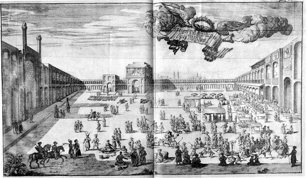 The 'Great Square of Isfahan' (Meidan-e Naghsh-e Jahan) in Engelbert Kaempfer's Amoenitates Exoticae (Lemgo, 1712, p. 170). Situated at the center of the city it is one of the largest squares in the world (560 x 160m) and since 1979 a World Heritage Site.